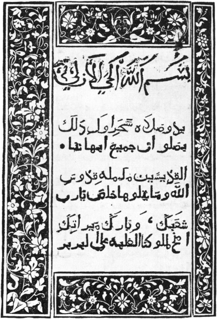 This is a page from Kitab salat al-sawai (The book of hours) first printed in Fano,Italy on September 12th 1514. It was the first printed arabic book. The picture was taken from a book found in Princeton University Library, Department of rare books .and special collections